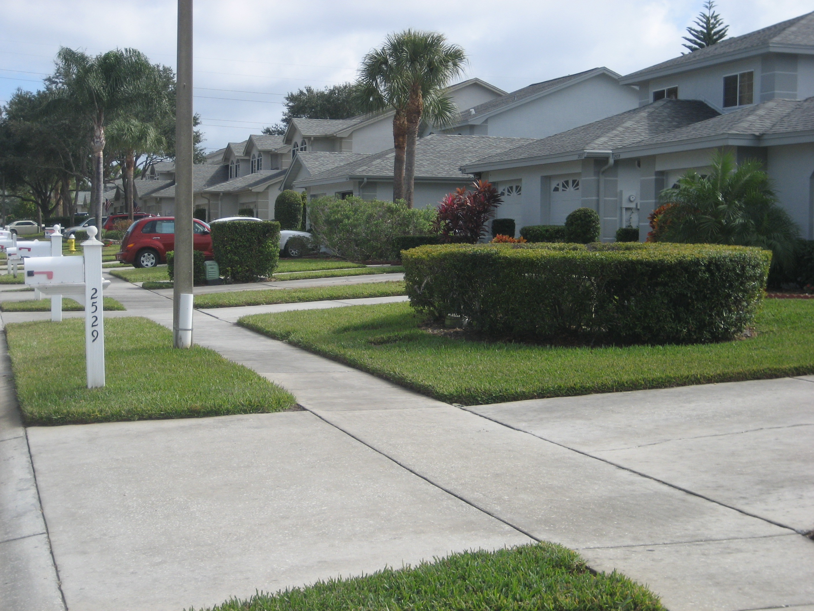 Brookfield at Estancia subdivision in Clearwater, Florida